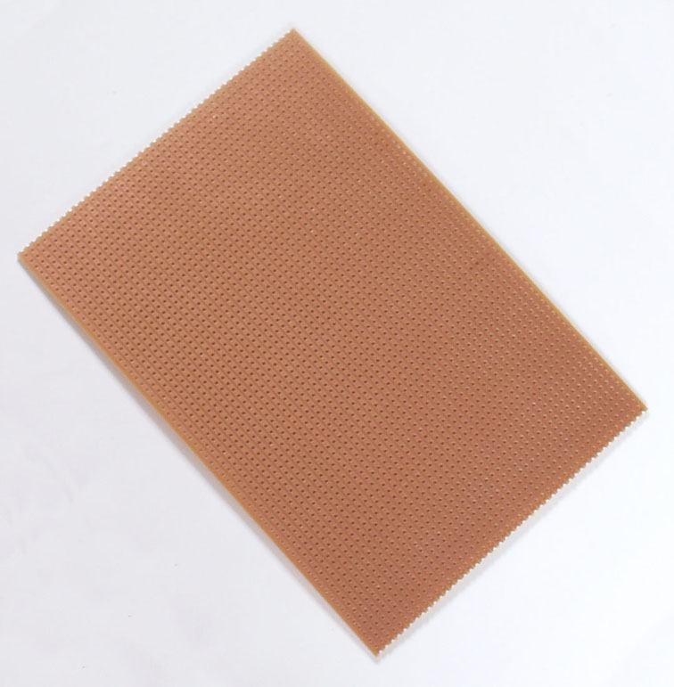 Image of a piece of Stripboard (Veroboard), copper side showing.